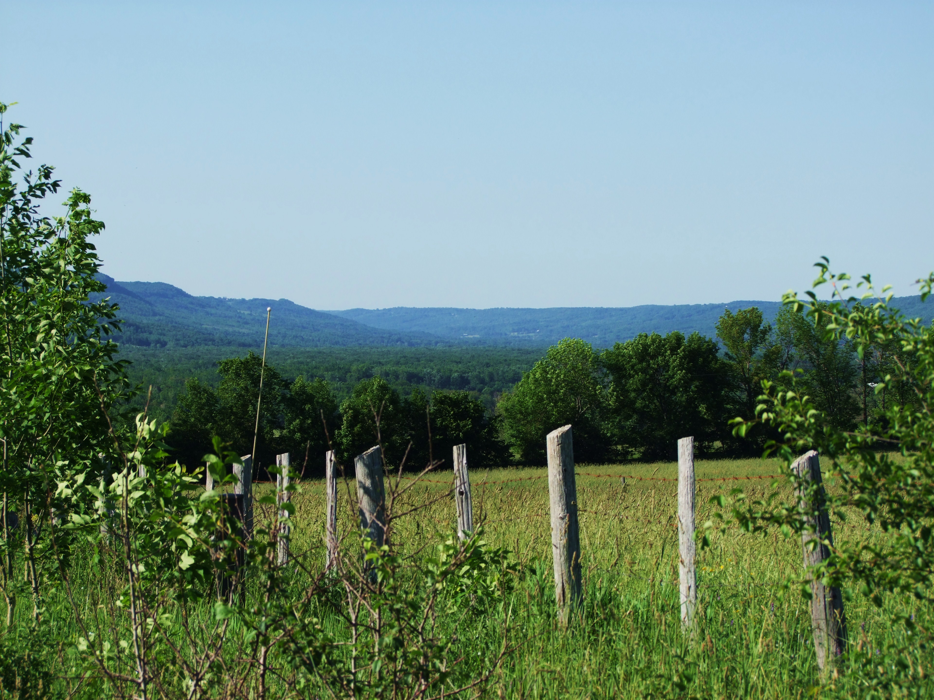 The Beaver Valley viewed from the north west